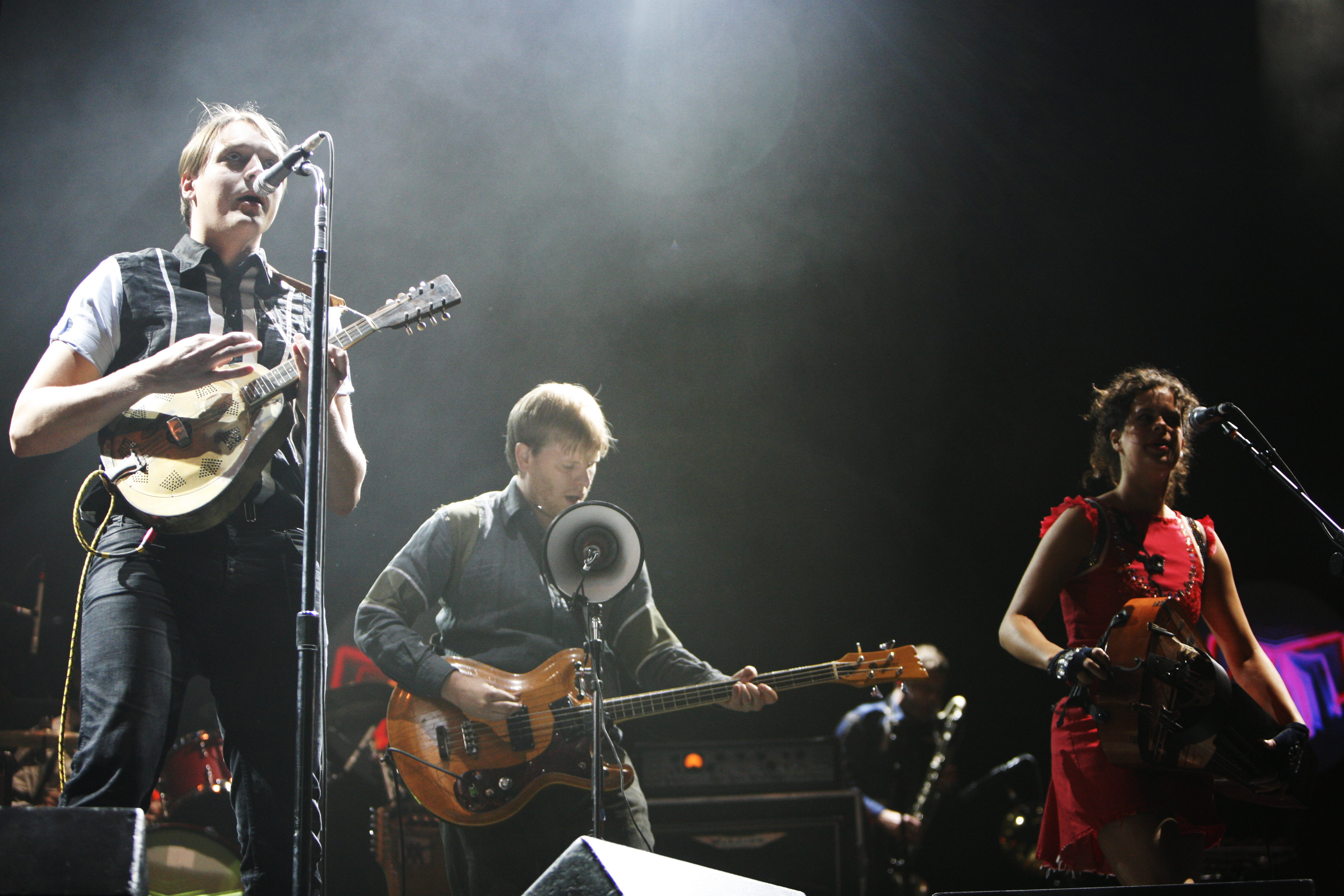 Arcade Fire at the Eurockéennes of 2007